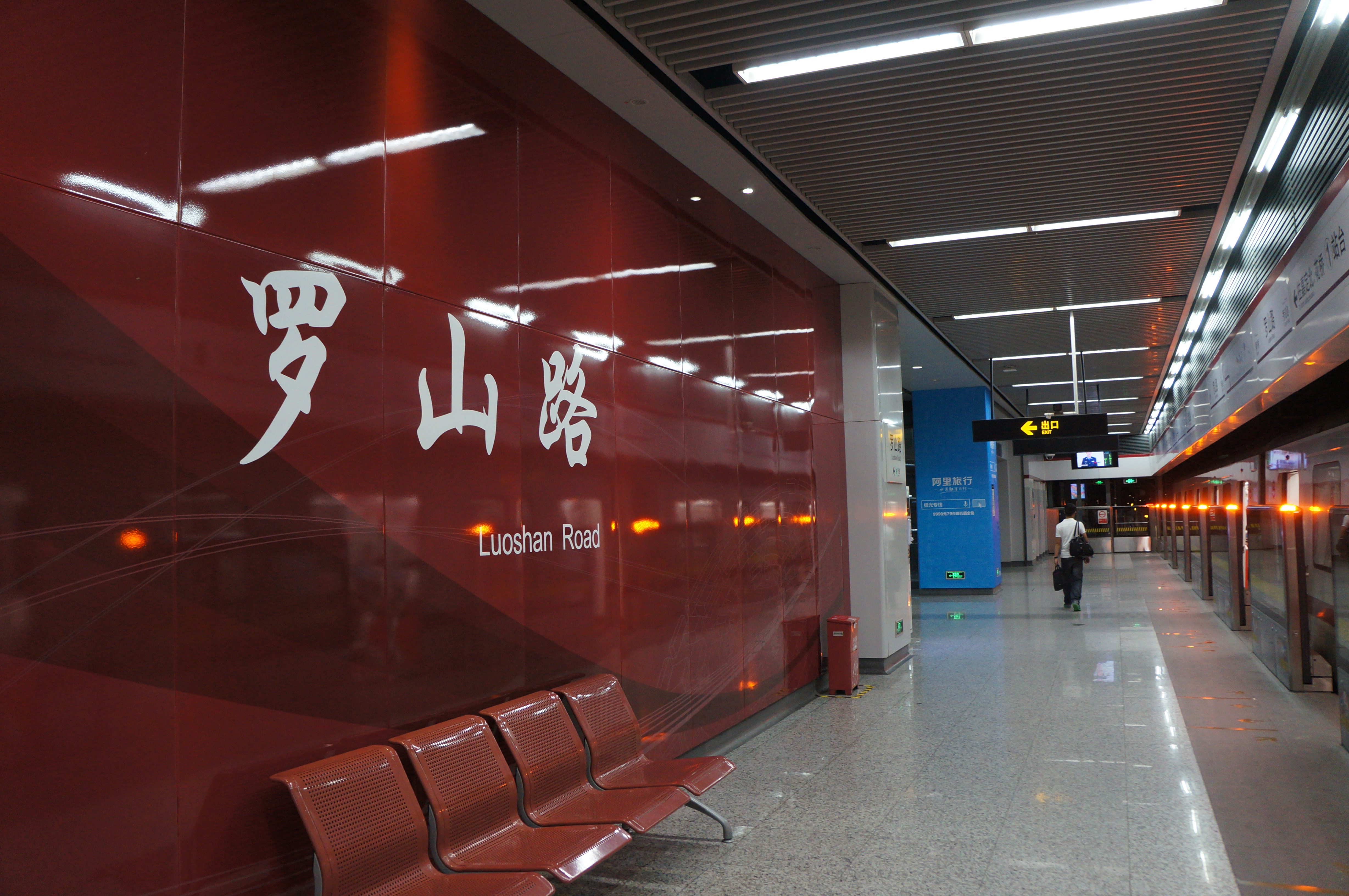 201609 Nameboard of Luoshan Road Station